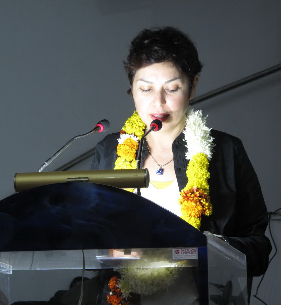 International Festival of Poetry, Kritya-2011